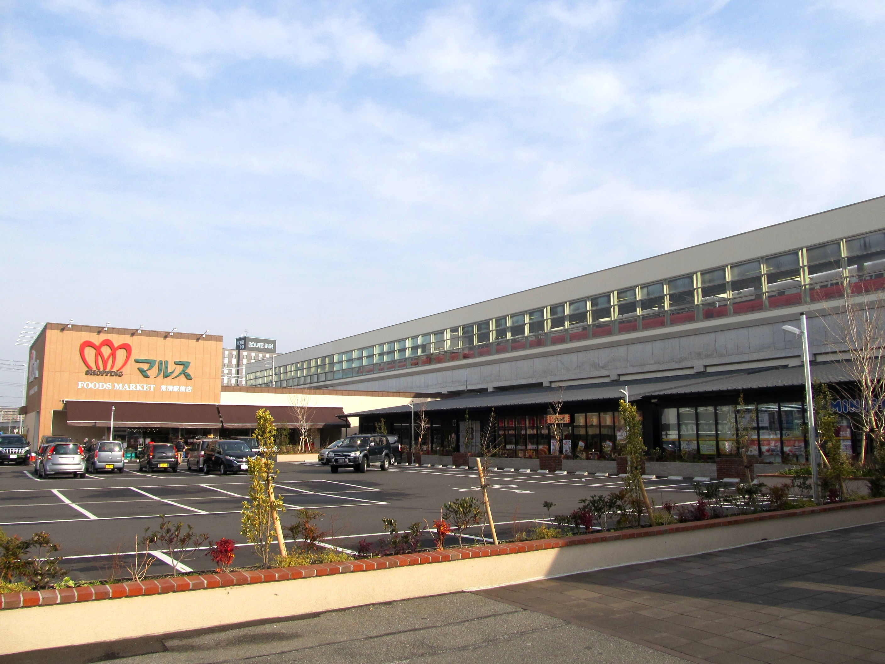 Tokoname Station Commercial facilities "μ-PLAT TOKONAME" in Tokoname City, Aichi Prefecture, Japan